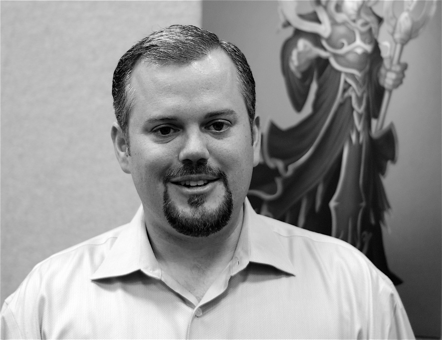 Paul Sams is the COO of Blizzard, the company responsible for World of Warcraft and other games such as Starcraft and Diablo.